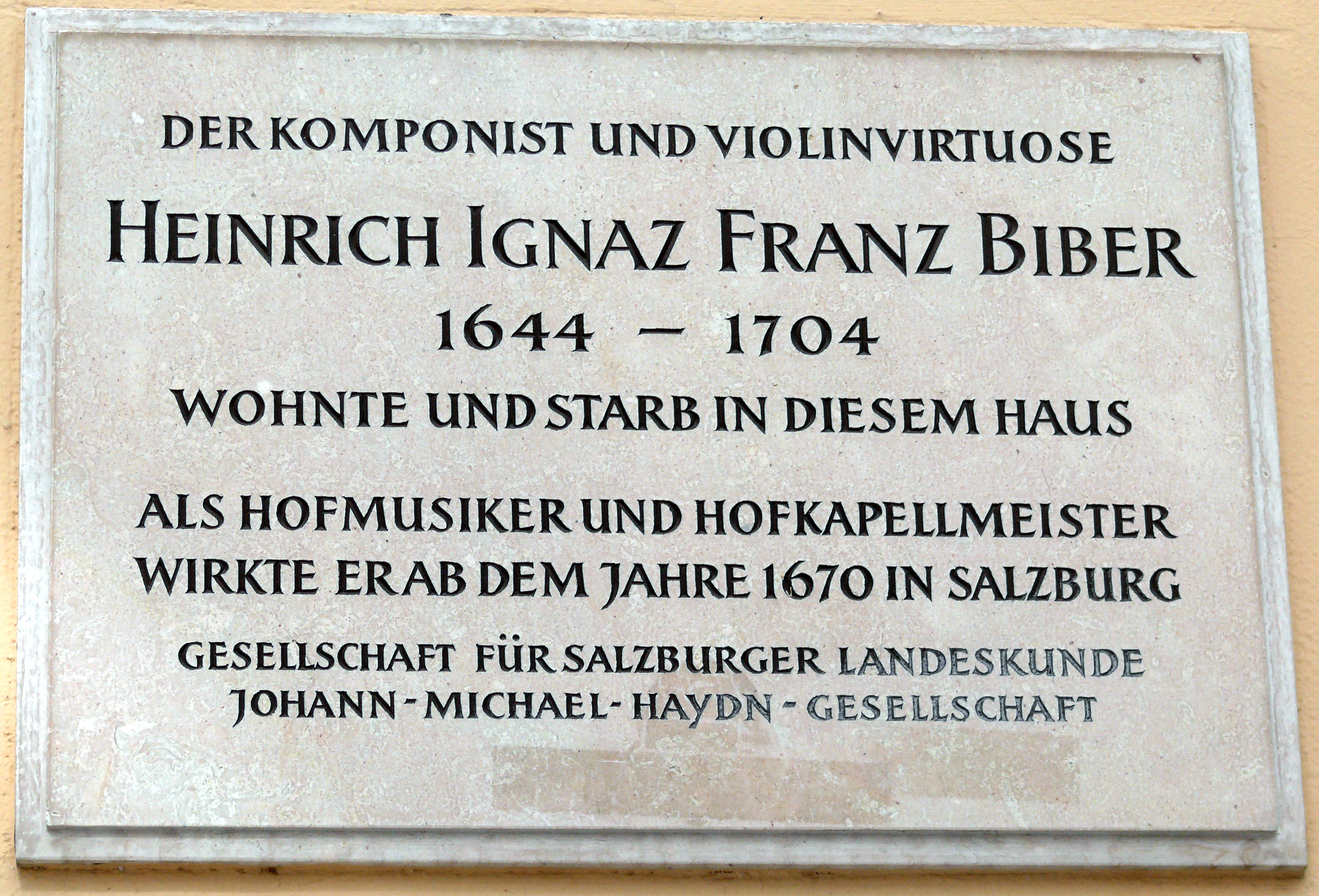 Plaques of Heinrich Ignaz Franz Biber. Getreidegasse Salzburg